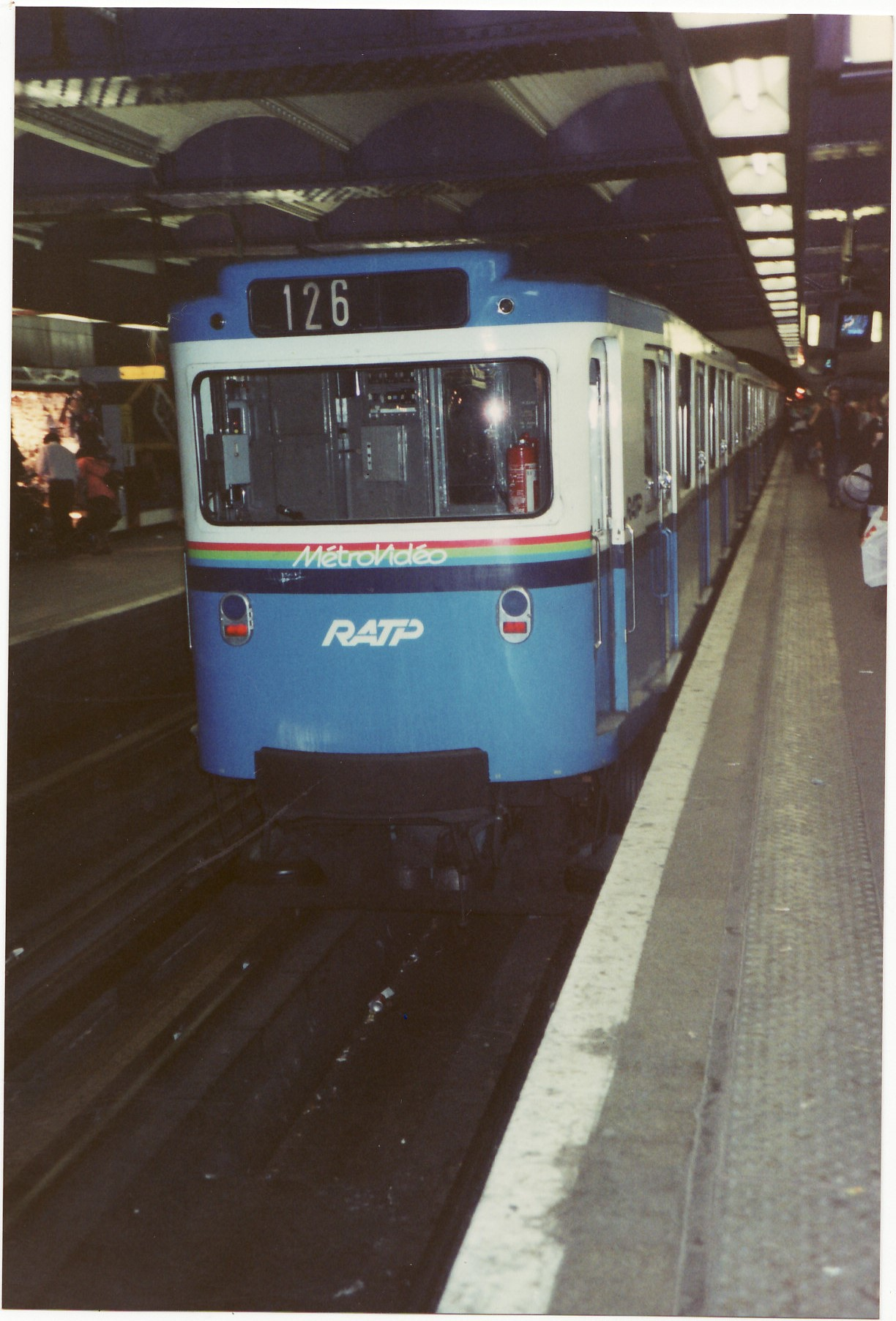 MP 59 "Métro-Vidéo", Paris métro.